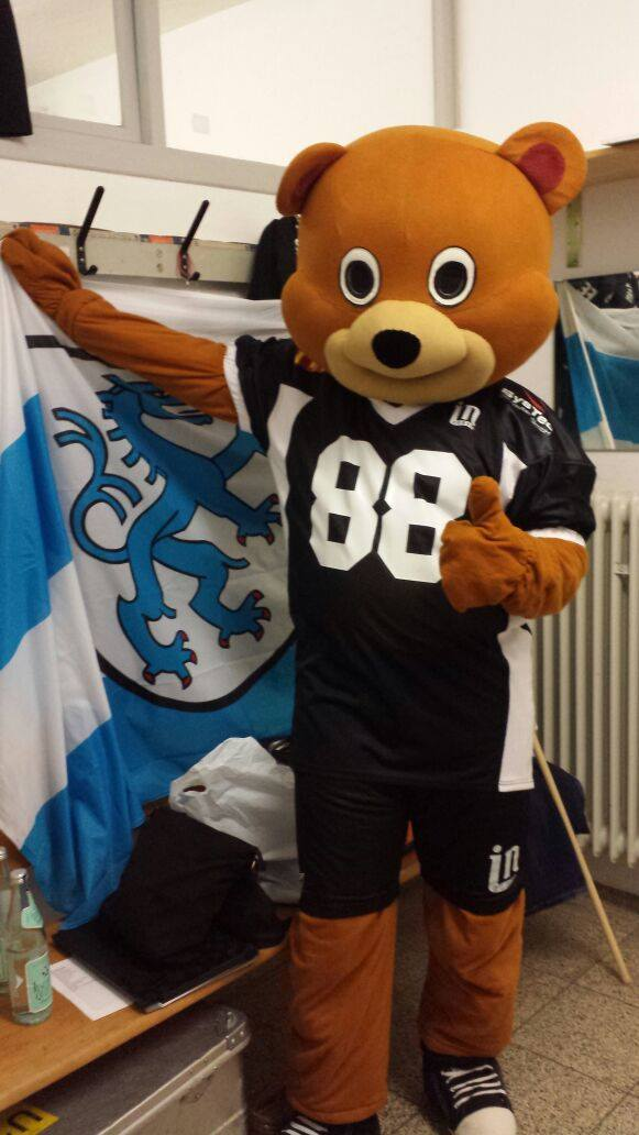 American Football team Ingolstadt Dukes mascot named Happy Bear